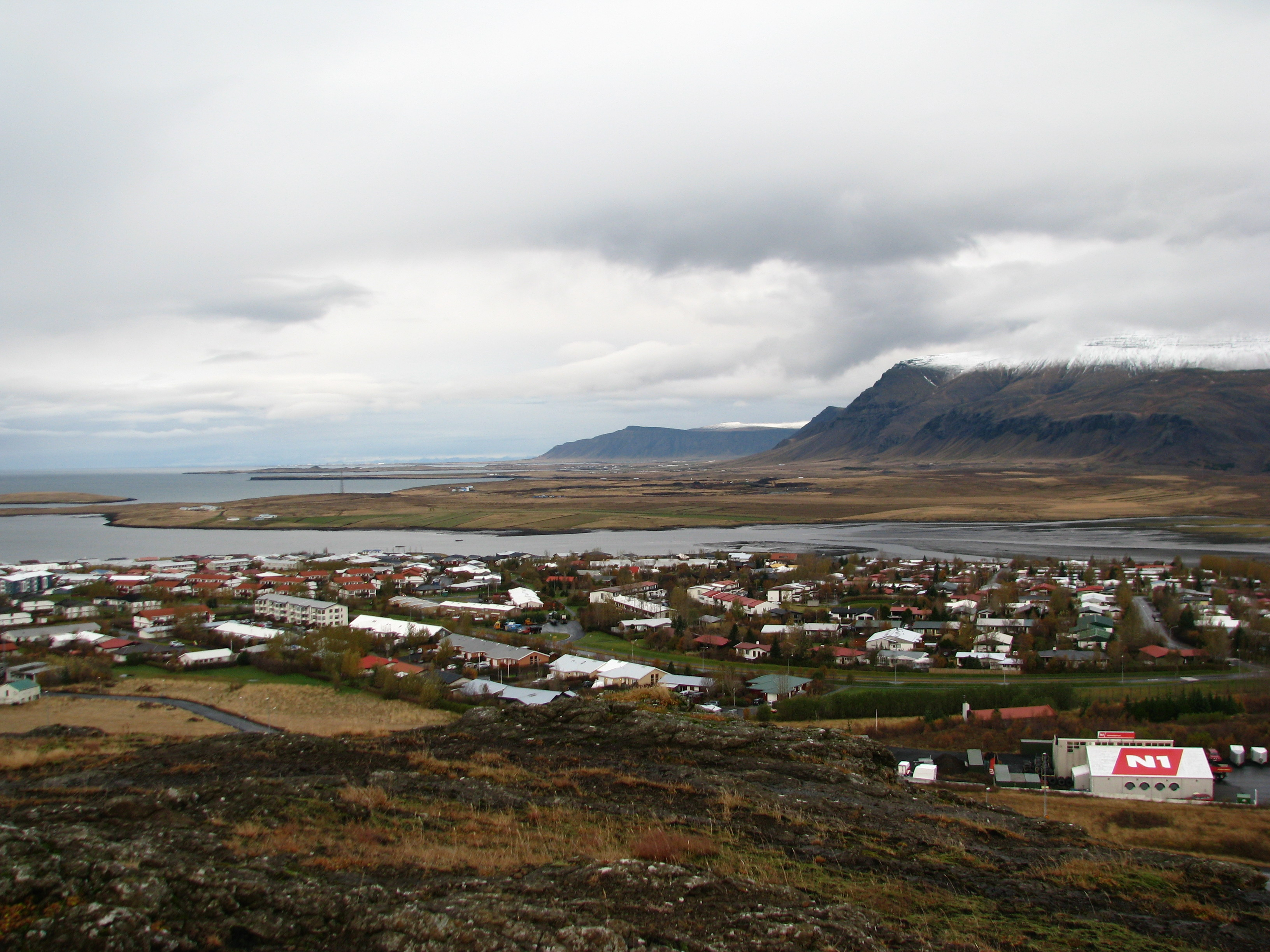 Mosfellsbaer, a town near Reykjavík, Iceland